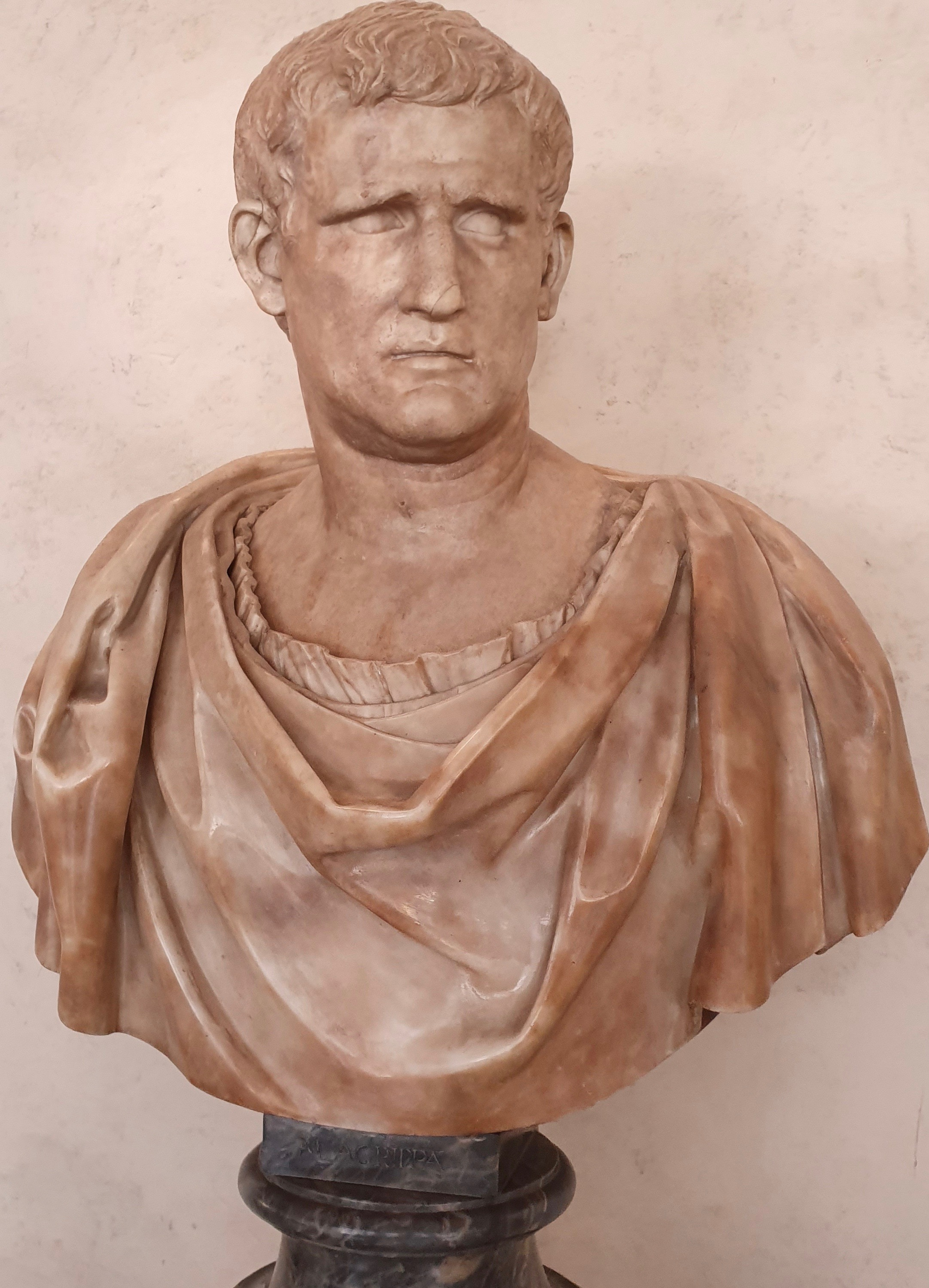 Portrait of Marcus Vipsanius Agrippa, late 1st century BCE, Greek marble